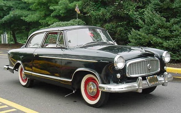 1959 Rambler American 2-door sedan, a compact-sized economy car built by American Motors Corporation (AMC) -- the first generation design. Note the aftermarket "curb feeler" mounted behind the front wheel fender. A type of short spring mounted antenna to help prevent scraping the wide whitewall tire sidewall against curbs. Picture taken at the 2003 AMCRC car show that was held in Somerset, New Jersey.